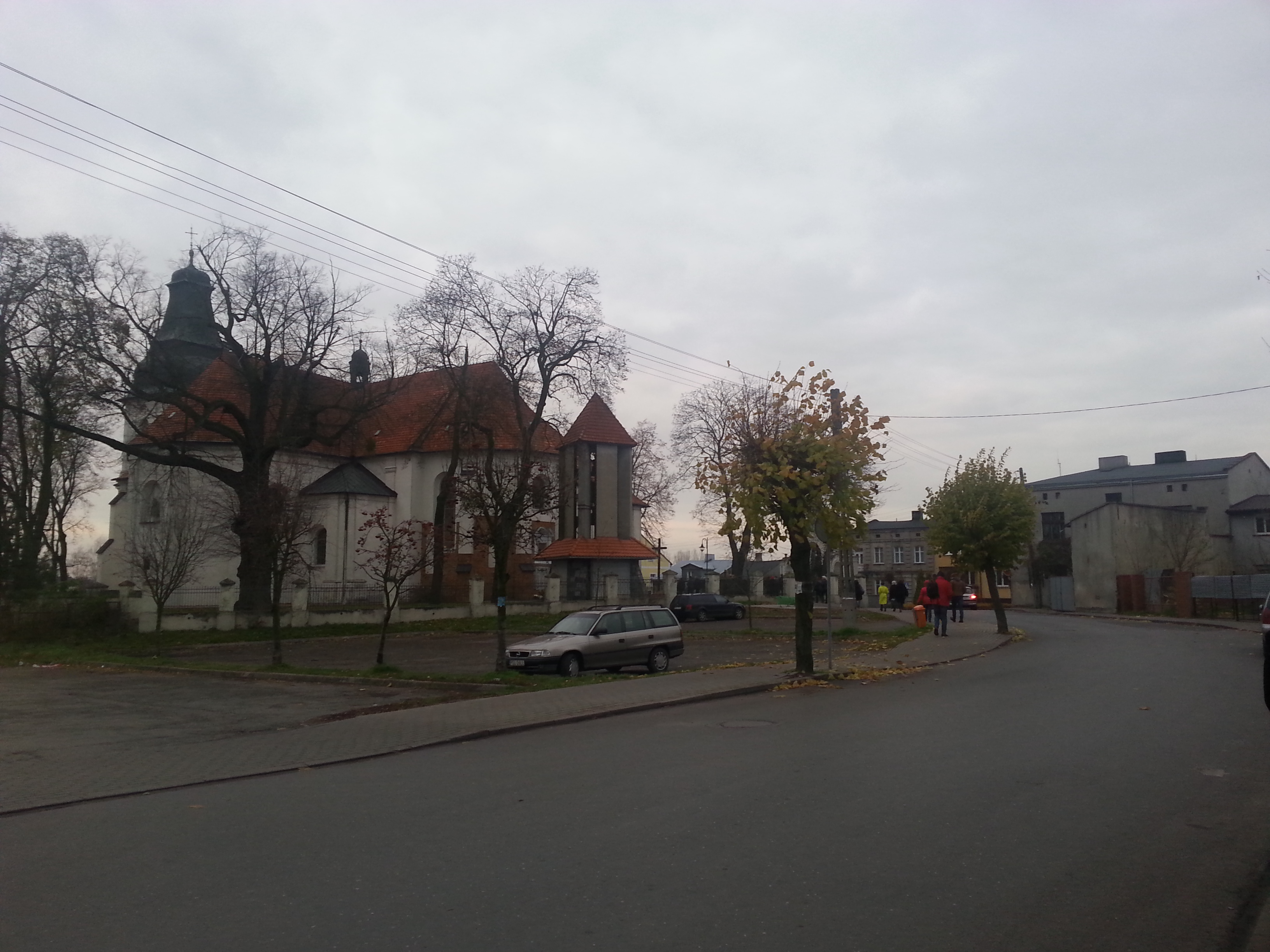 Saints Peter and Paul the Apostles church in Zagórów